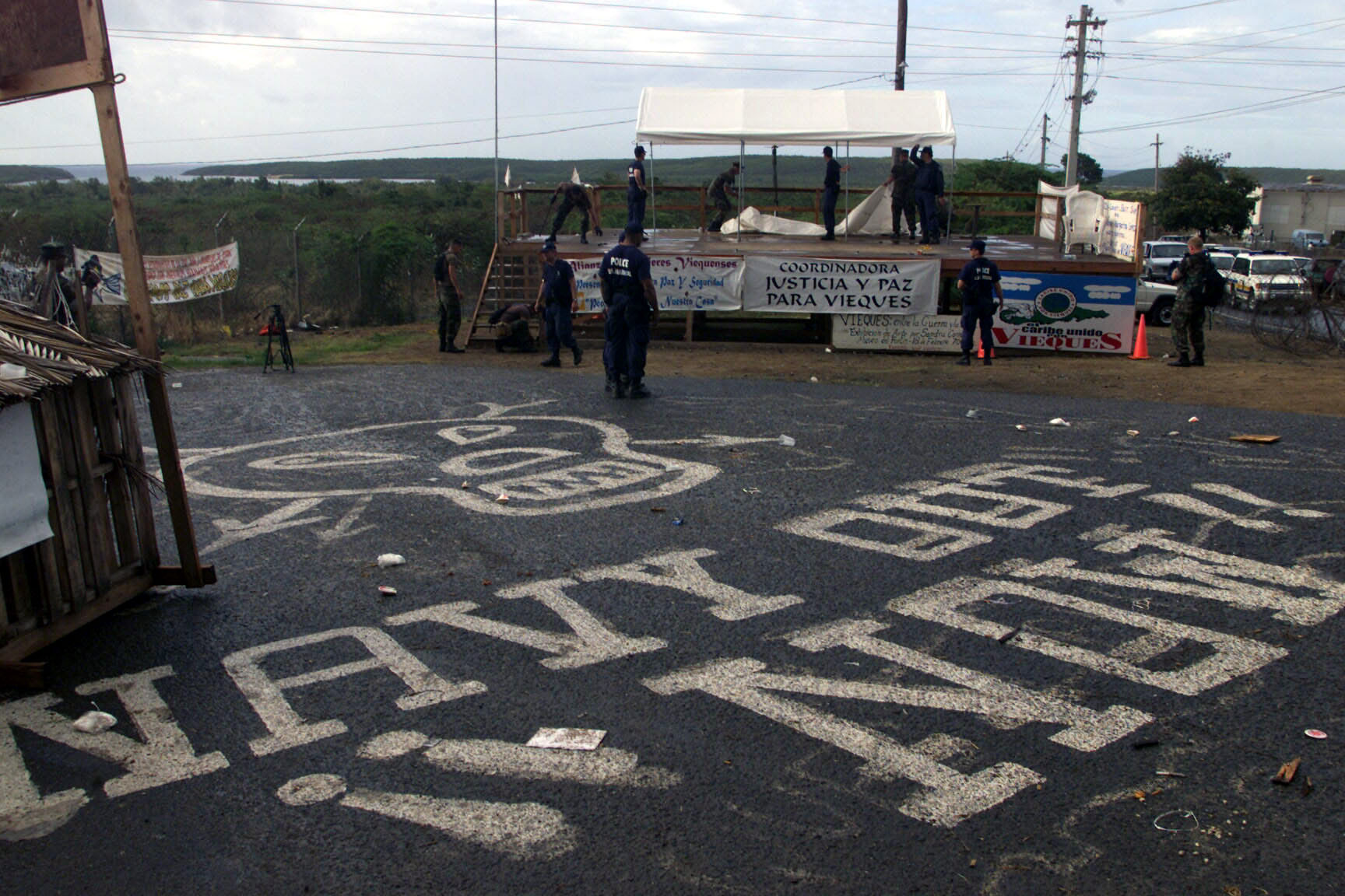 A view of the staging area being disassembled at Camp Garcia on Vieques Island, Puerto Rico, as US Military and Department of Justice Agents reclaimed the federal property on which protesters were residing for over a year. (Released to Public)